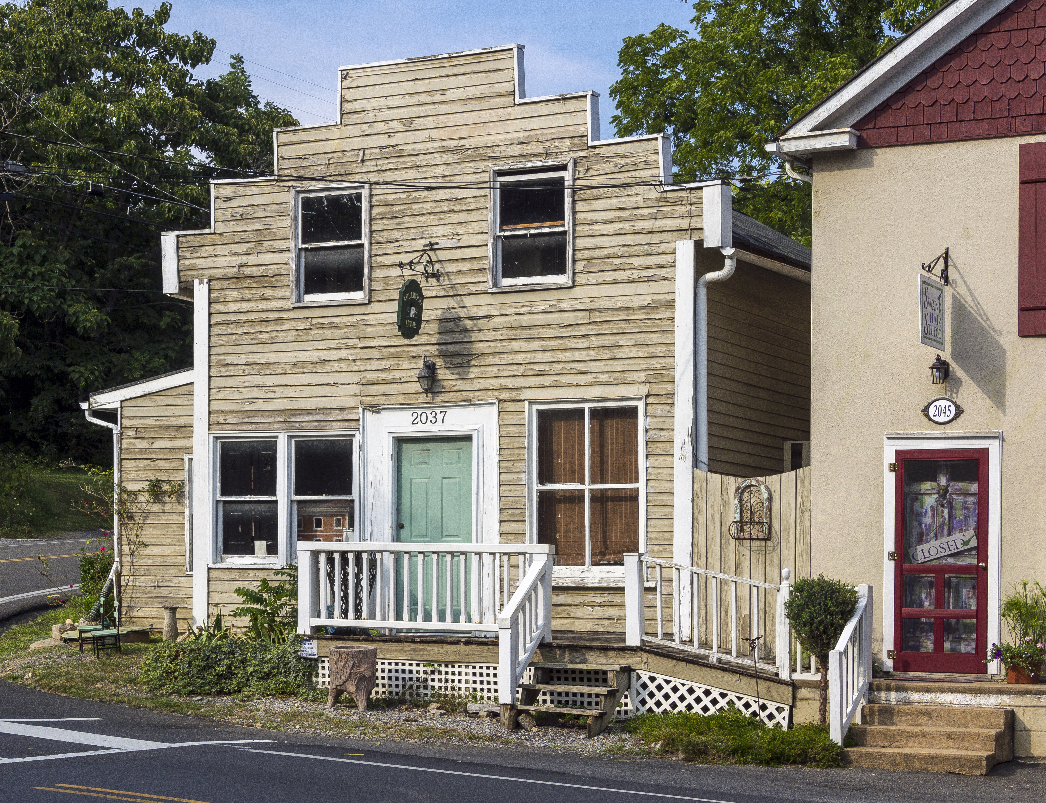 Central Millwood, Virginia, USA